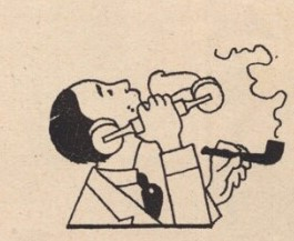 Adolf Hoffmeister, Czech writer, journalist, painter (by V. H. Brunner, 1927)